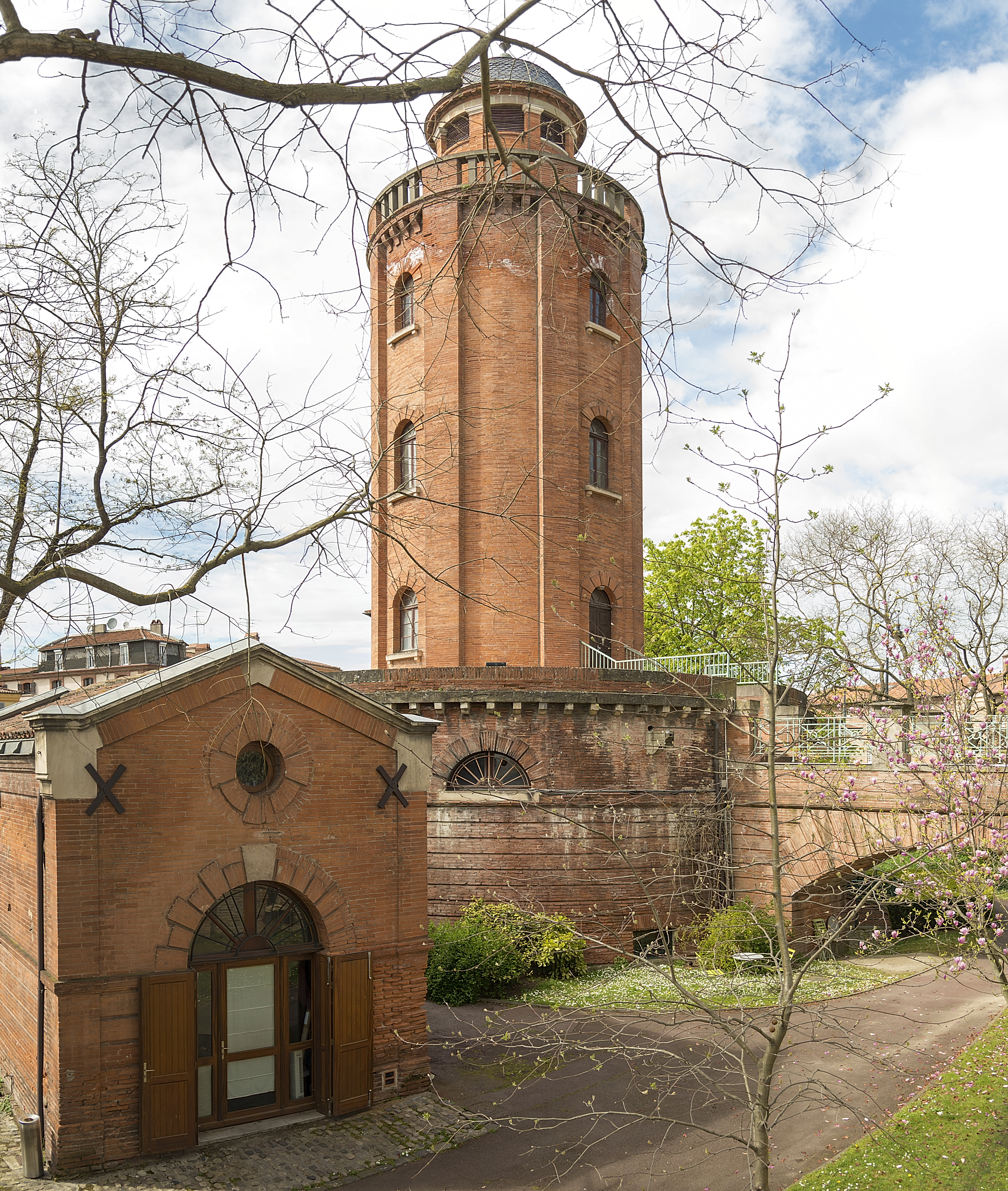 Galerie du Château d'eau, converted since 1974 in photographic exhibition gallery.